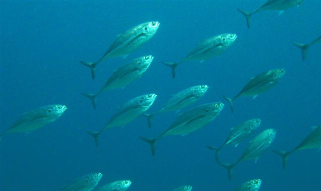 Koh Phi Phi Dorn, Hin Phae, Thailand 7th July 2000